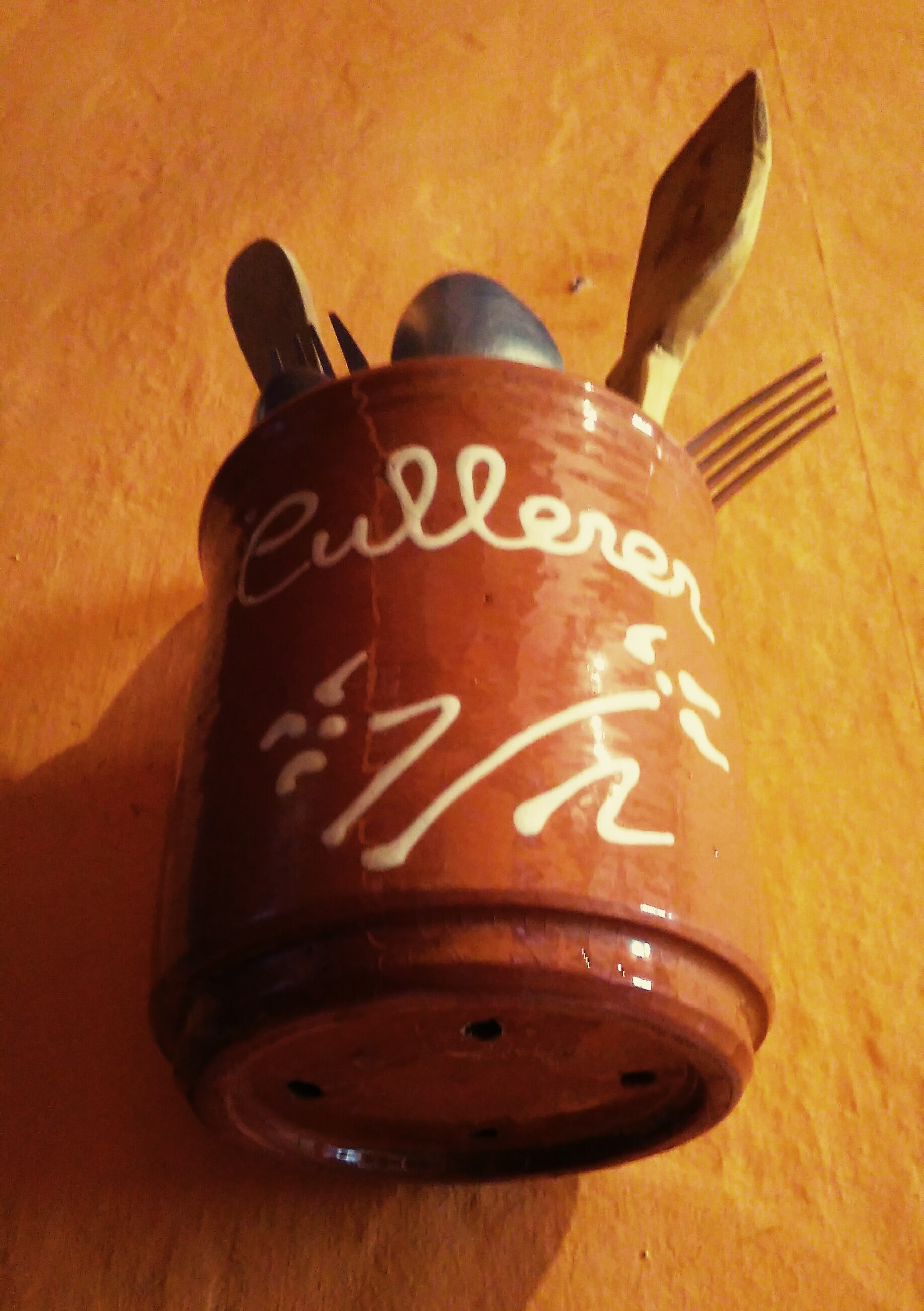 Égouttoir à couverts